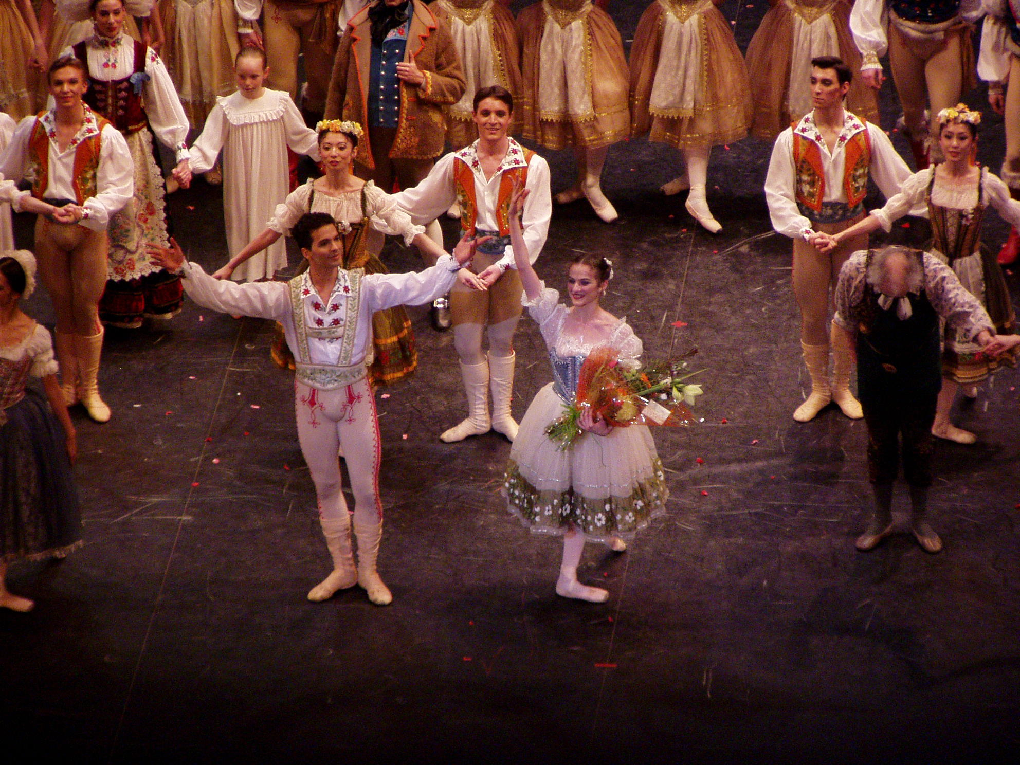 Elena Glurdjidze as Swanilda & Arionel Vargas as Franz in the ENB's production of Coppelia. Southampton's Mayflower Theatre. This was Vargas' debut in the role of Franz. Also in the picture (bowing) is Michael Coleman as Dr. Coppelius.